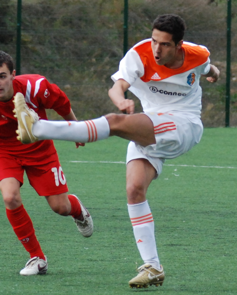 Georgi Milanov